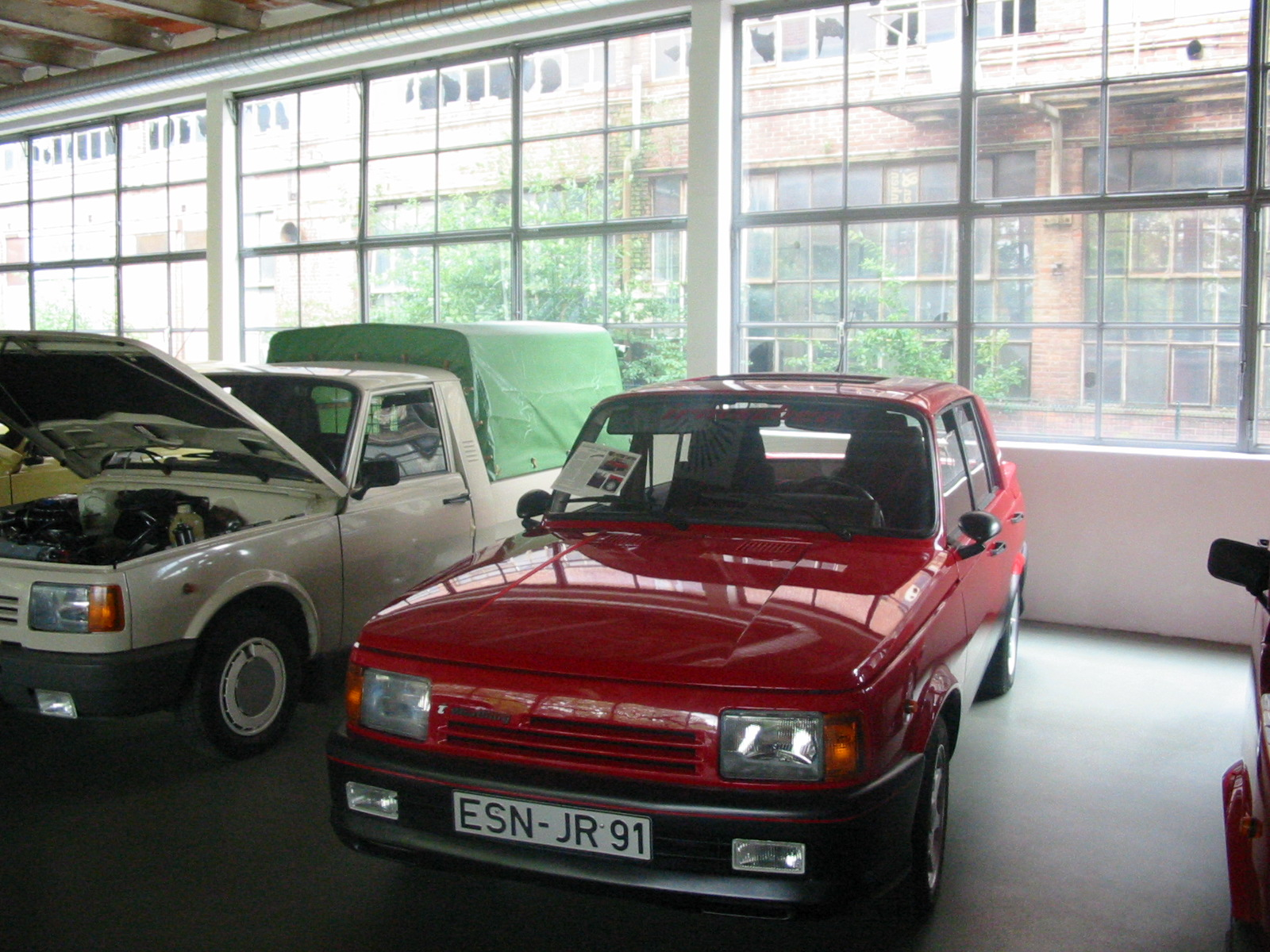 Prototype Wartburg 1.3 "New Line" (one of two ever build) at the AWE Museum Eisenach